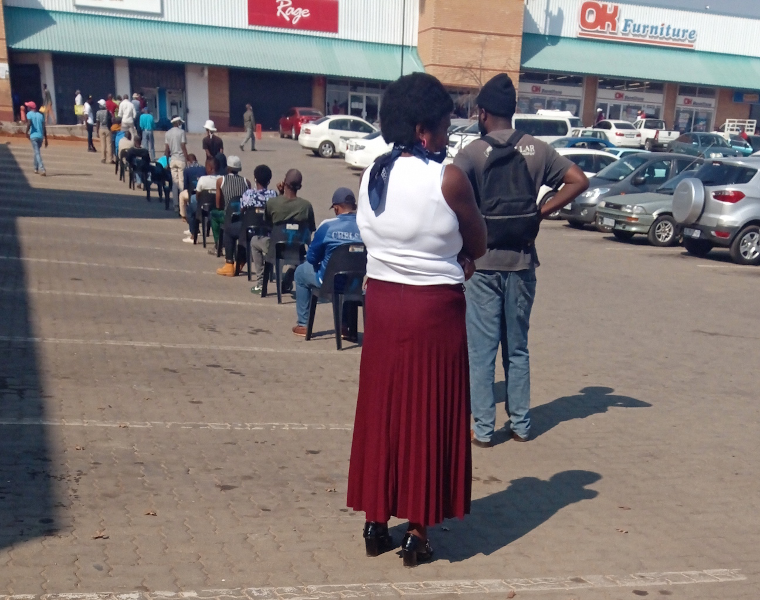 People practicing social distancing during a shopping outing in South Africa, during level 4 national lock down. This was one of the recommendation to curb the spread of Corona virus in May 2020.